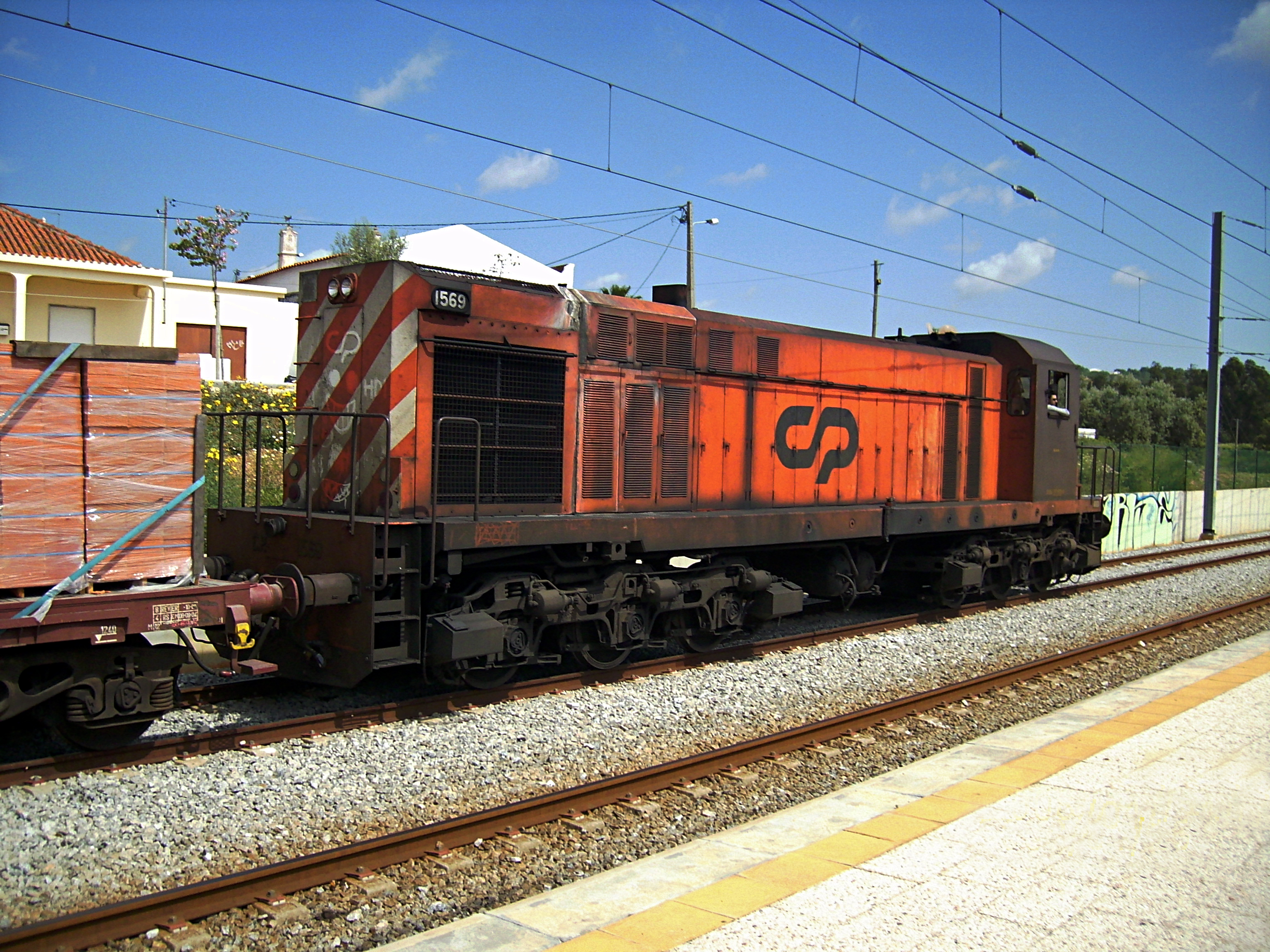 A CP-Baureihe 1550/CP Class 1550 series locomotive in Tunes Train Station, Tunes, Silves, Portugal.